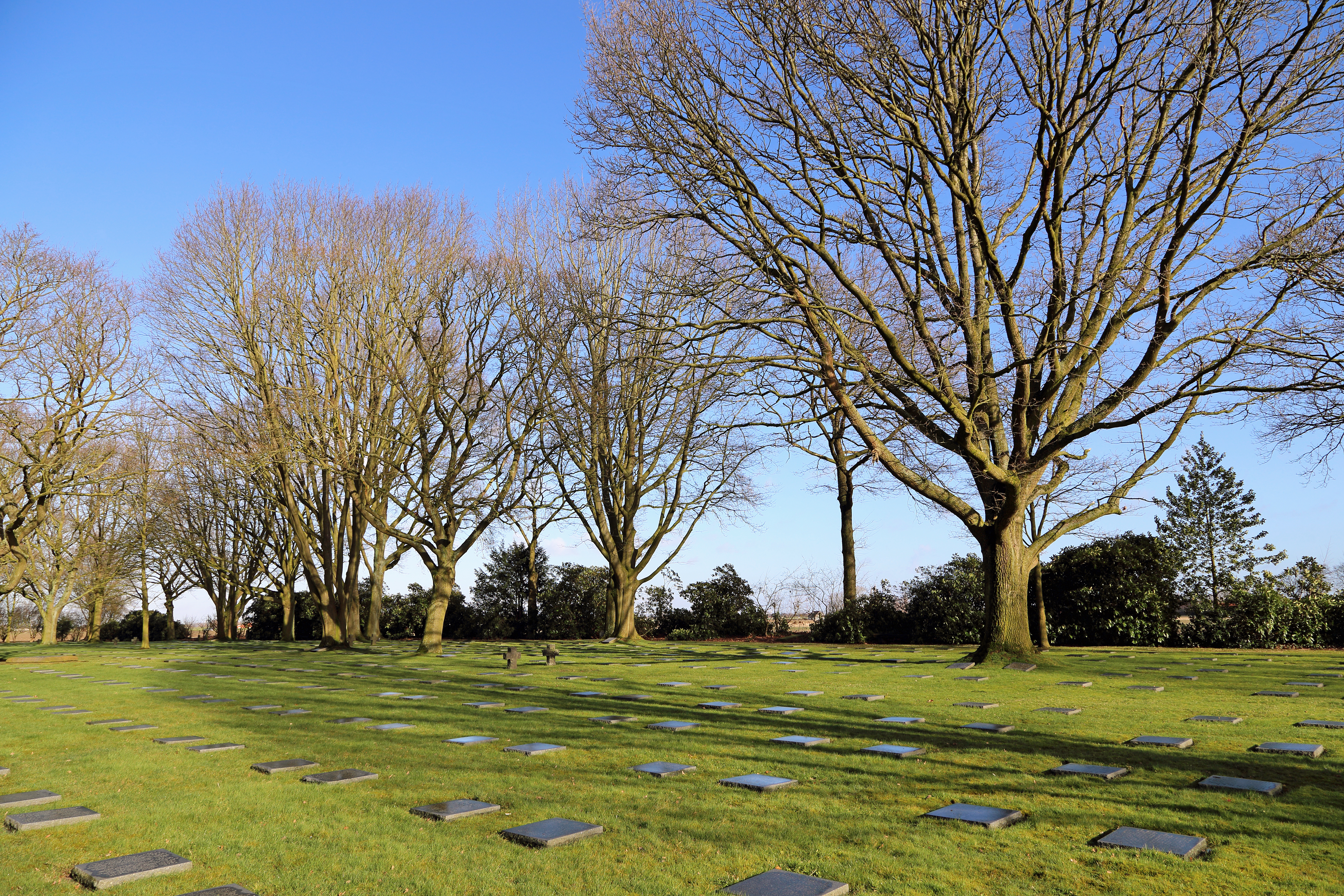 Menen (Belgium): German WW1 cemetery